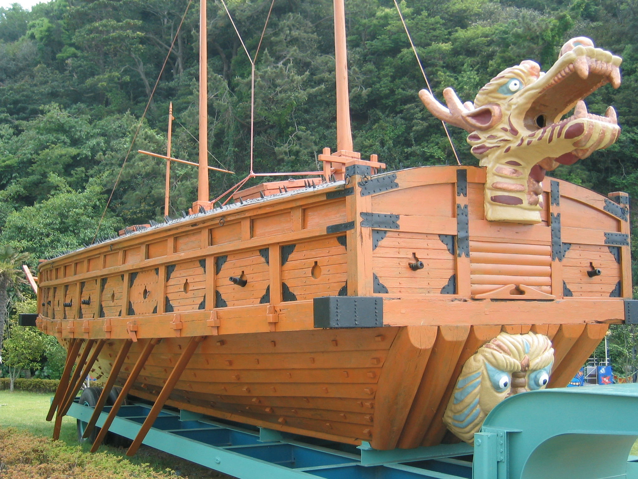 Geobukseon ship in South Korea